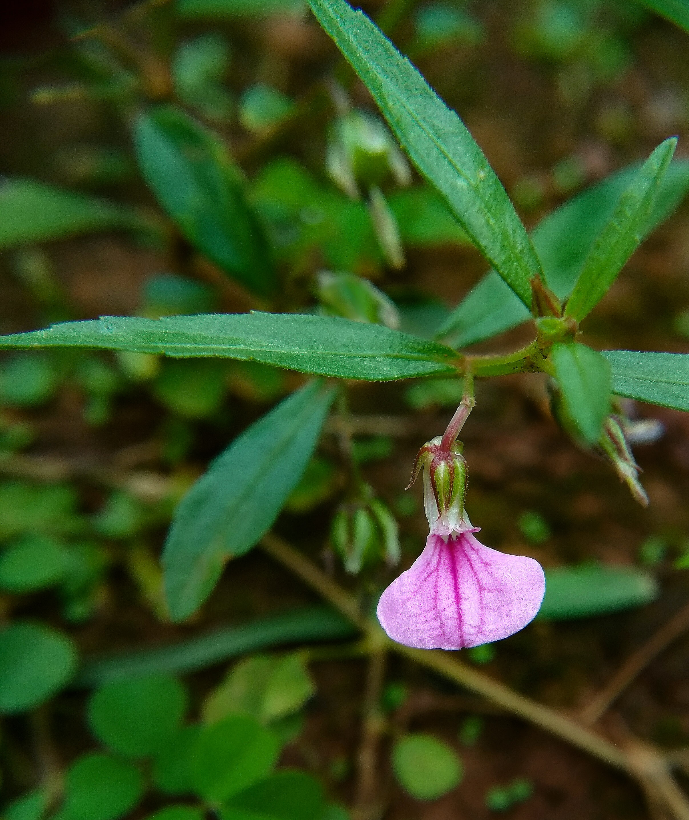 Hybanthus enneaspermus, Spade Flower, ഓരിതൾ താമര, ഓരിതൾ പൂ, orthal thamara, orithalthamara orithalpoo, നാടൻ പൂക്കൾ, നാട്ടു പൂക്കൾ, AR NAGAR, Pukayoor Kunnath, Malappuram, Jubin Raj Ottippadathil, Flowers of kerala